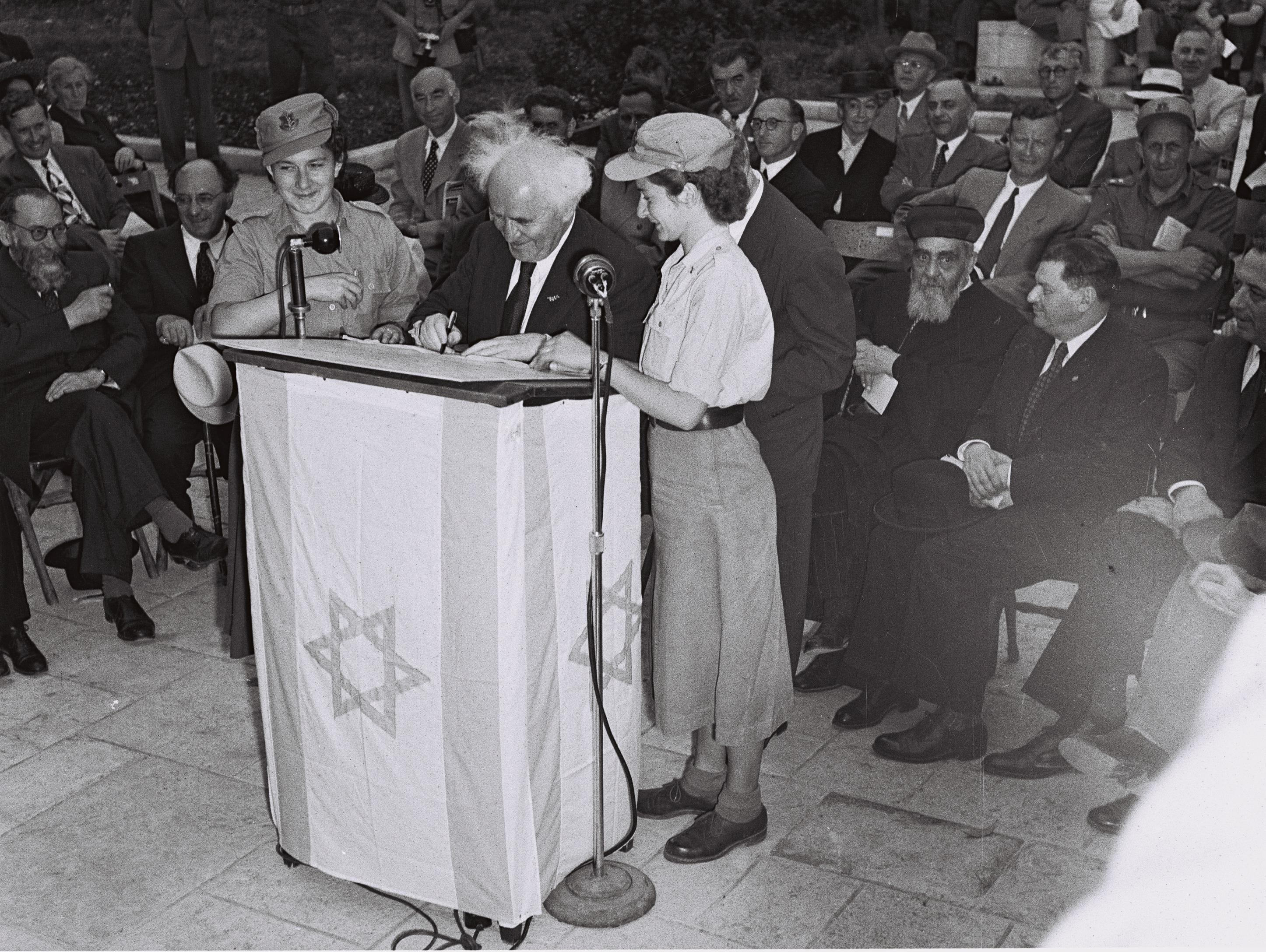 PM David Ben-Gurion signing a document during the foundation ceremony of the Hebrew University Medical School in Jerusalem.